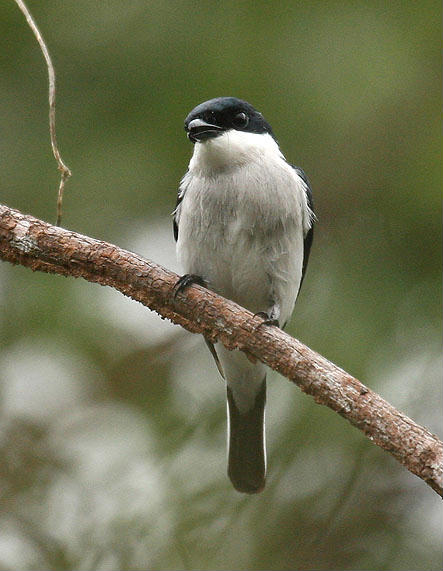 A Black-winged Flycatcher-shrike (Hemipus hirundinaceus) Bako National Park, Sarawak, Borneo, Malaysia 28 March 2008